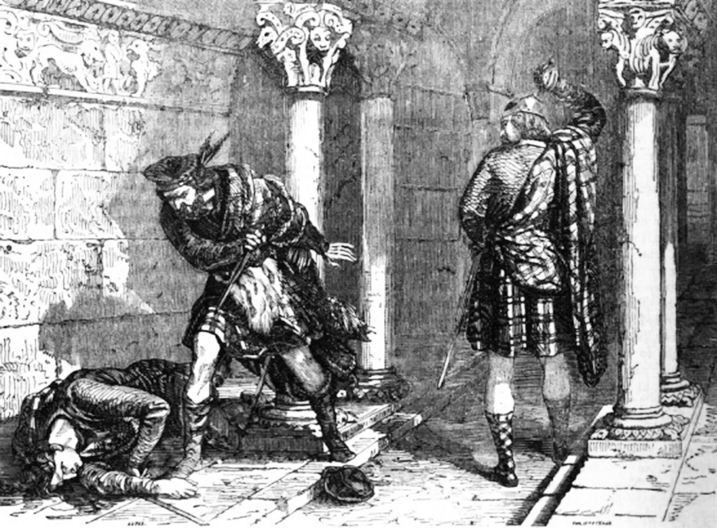 The title is the same as the image caption above & in "Cassell's Illustrated History of England, Volume 1". The number shown is the page number. Follow the image link to the full book.